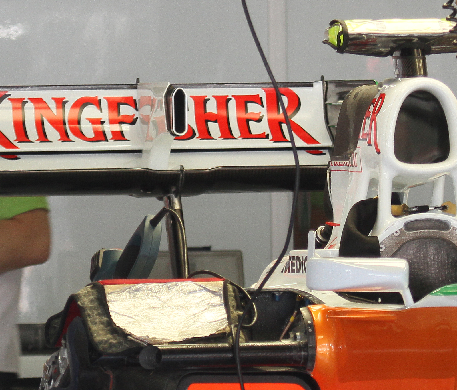 Formula One 2010 Rd.16 Japanese GP: Force India VJM03's rear wing with F-duct slot.